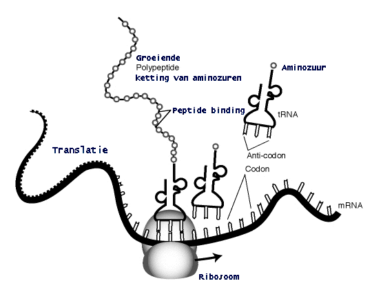 Translation in the cytoplasm. Uploaded from English Wikipedia. Now with Dutch names.